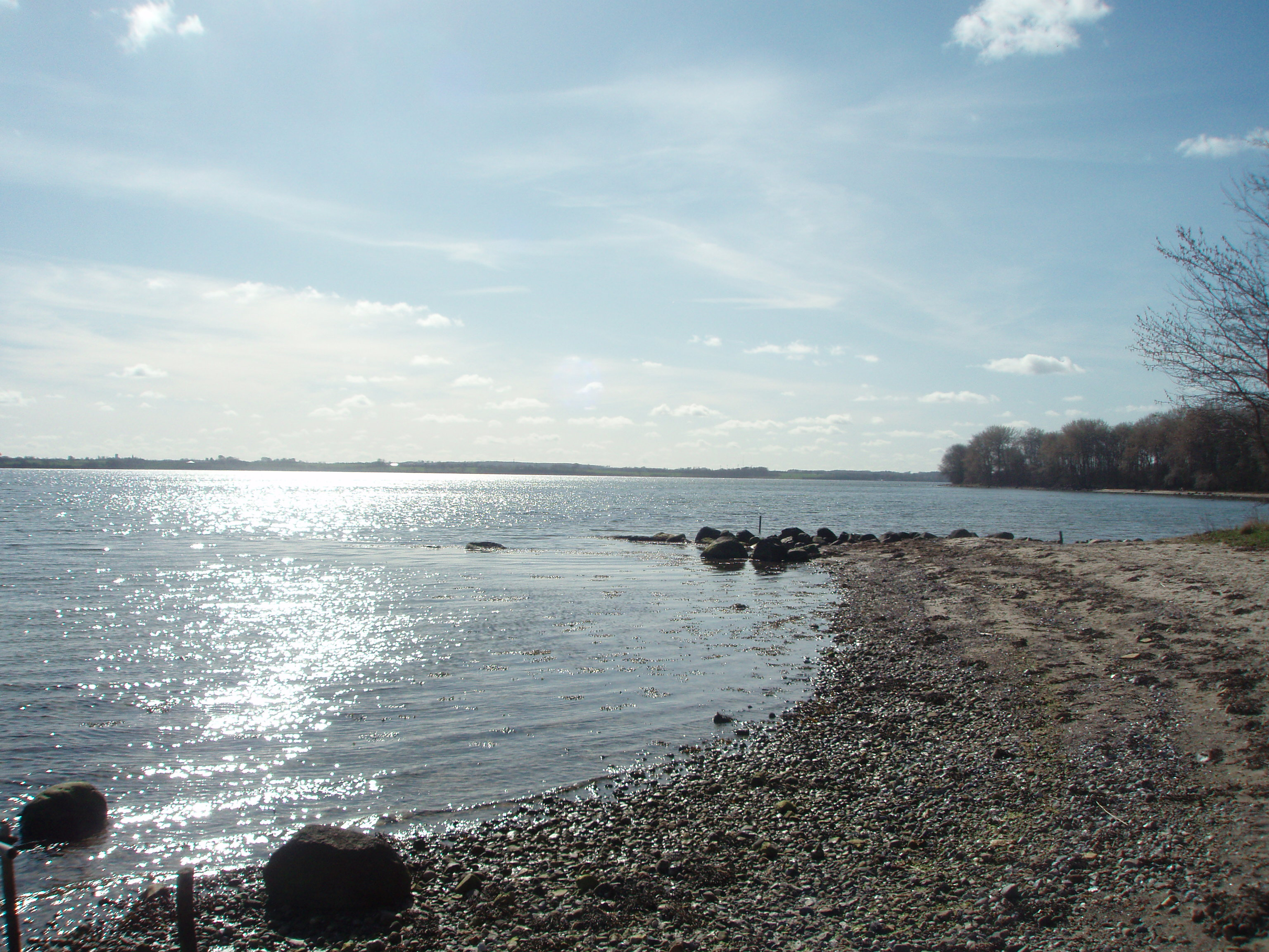 The coast at Lusig Strand, Denmark. April 2009